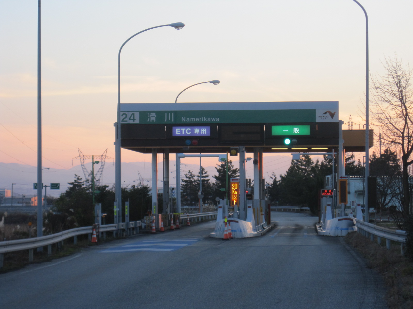 Namerikawa Inter Change (Hokuriku Expressway)